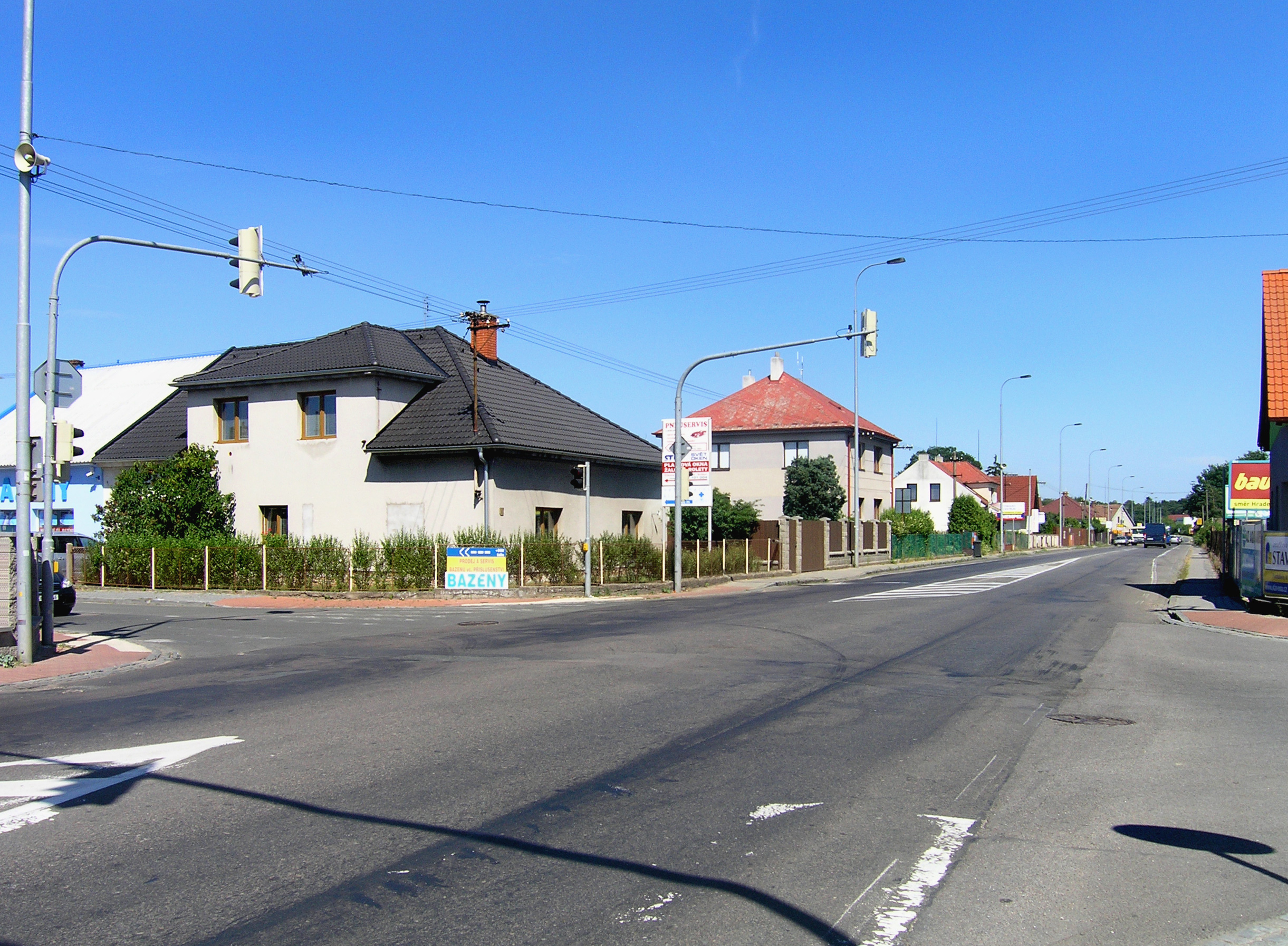 Pražská street in Popkovice, part of Pardubice, Czech Republic